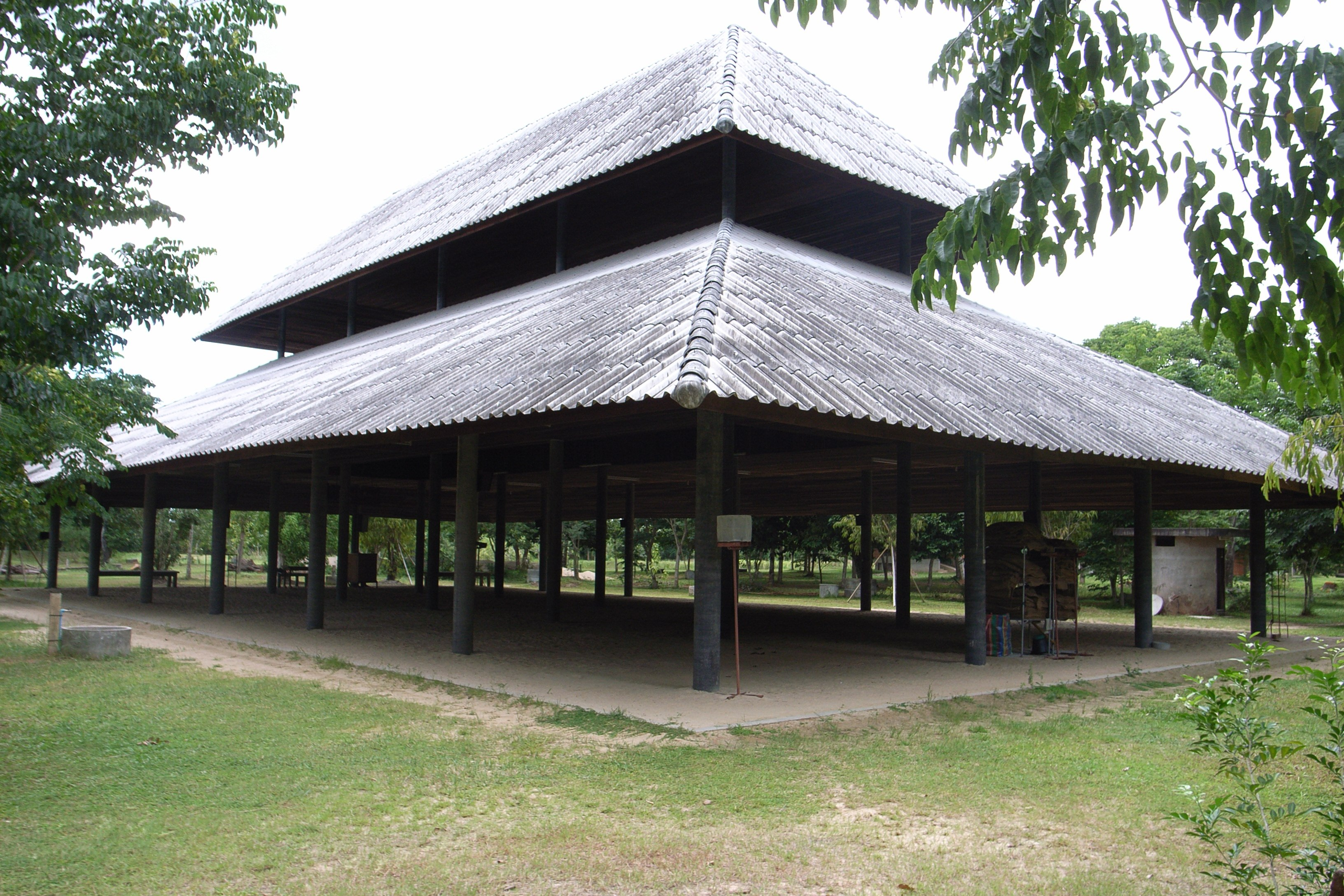 Sala with sandlot for meditation at Suan Mokkh